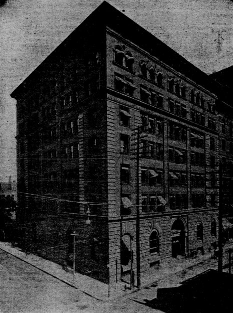 The Manhattan Building in Saint Paul, Minnesota, from an 1899 newspaper.